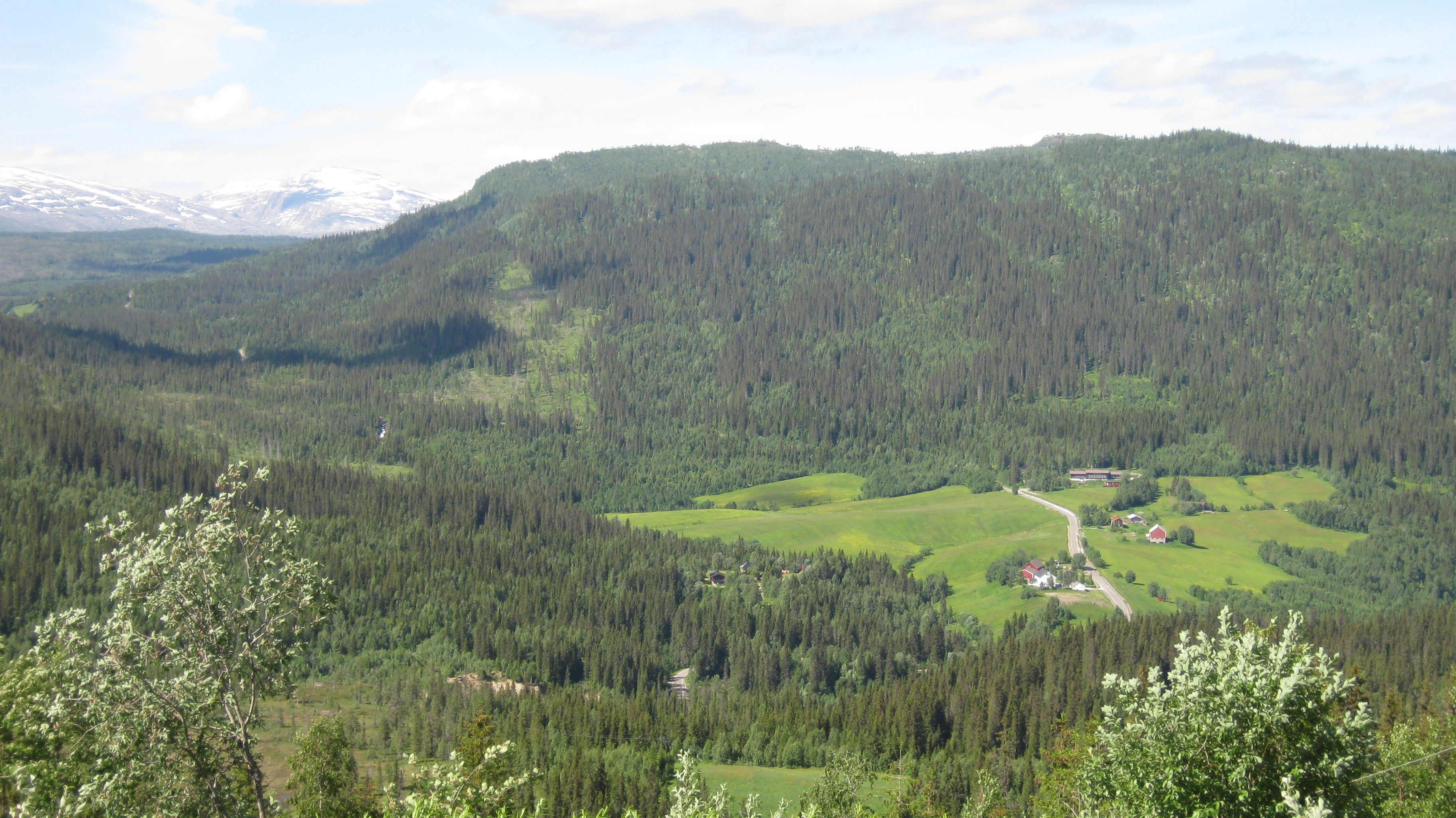 The valley Røvassdalen, Rana, Nordland county, Norway. Picture taken from near the entrance to Grønligrotta